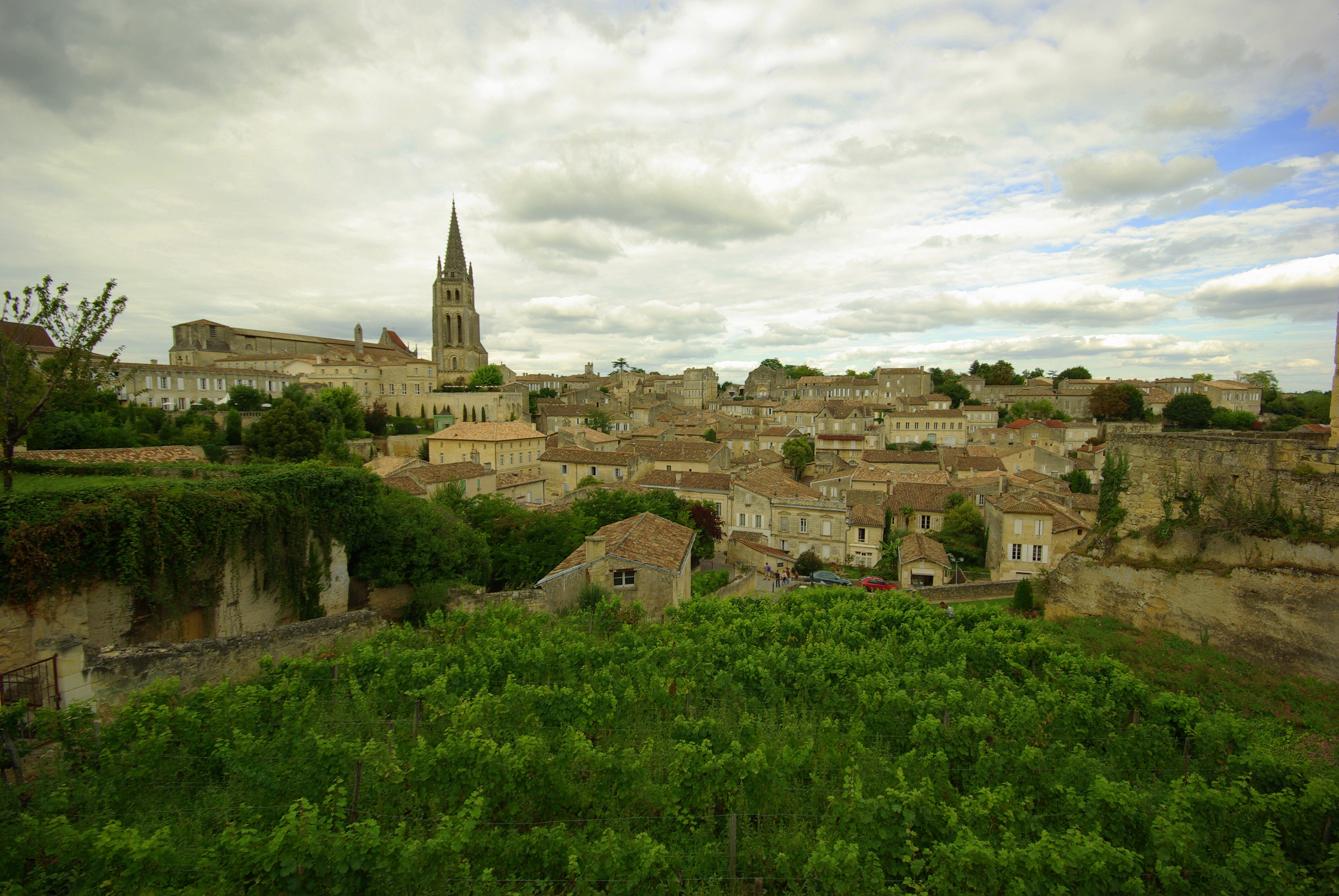 The French wine region of Saint Émilion on the right bank in Bordeaux